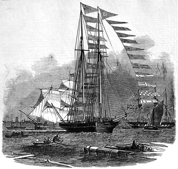 The "Titania" Schooner Yacht, built for Mr Robert Stephenson, CE.